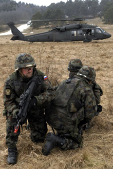 Slovenian Soldiers prepare to board a U.S. UH-60 Blackhawk during a multinational training exercise at the Joint Multinational Readiness Center’s Camp Albertshof in Hohenfels, Germany. The Slovenians were part of the mission readiness exercise for U.S. reserve component Soldiers preparing for the 11th iteration of the Kosovo Force in support of Operation Joint Guardian. (Photo by Spc. Darriel J. Swatts)